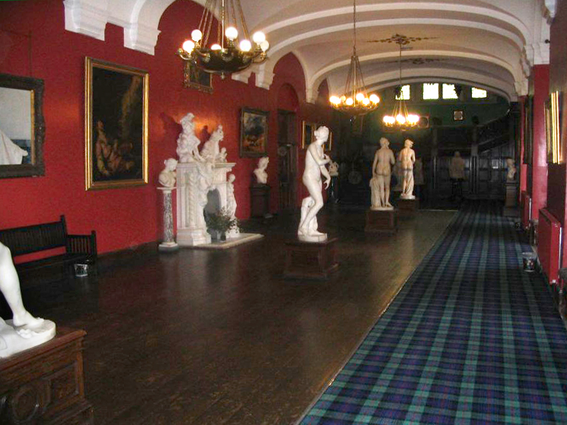 Carbisdale Castle, Lower Gallery, Scotland -- Picture taken by me. This picture is under public domain.